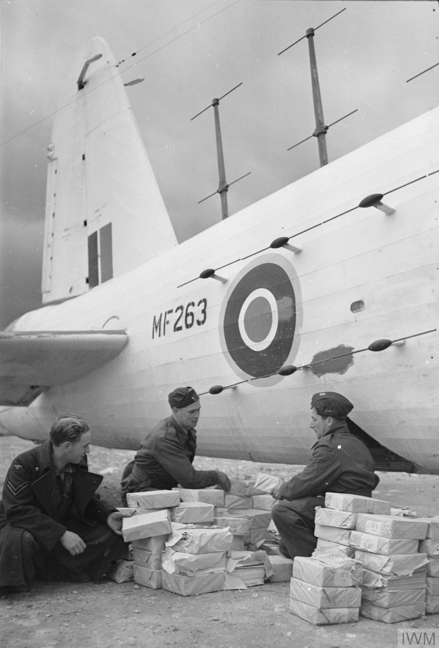 Royal Air Force- Italy, the Balkans and South-east Europe, 1942-1945. Three RAF ground crew, Corporal W Faulds, Leading Aircraftman G Gregory and Leading Aircraftman L Mansfield, load packets of newspapers into a Vickers Wellington GR Mark XIII, MF263, of No. 221 Squadron RAF at Kalamaki/Hassani, Greece, for dropping to villages in Macedonia cut off by the winter snows and destroyed communications. Note the elaborate aerial array of the ASV Mark II anti-submarine radar carried on this aircraft.